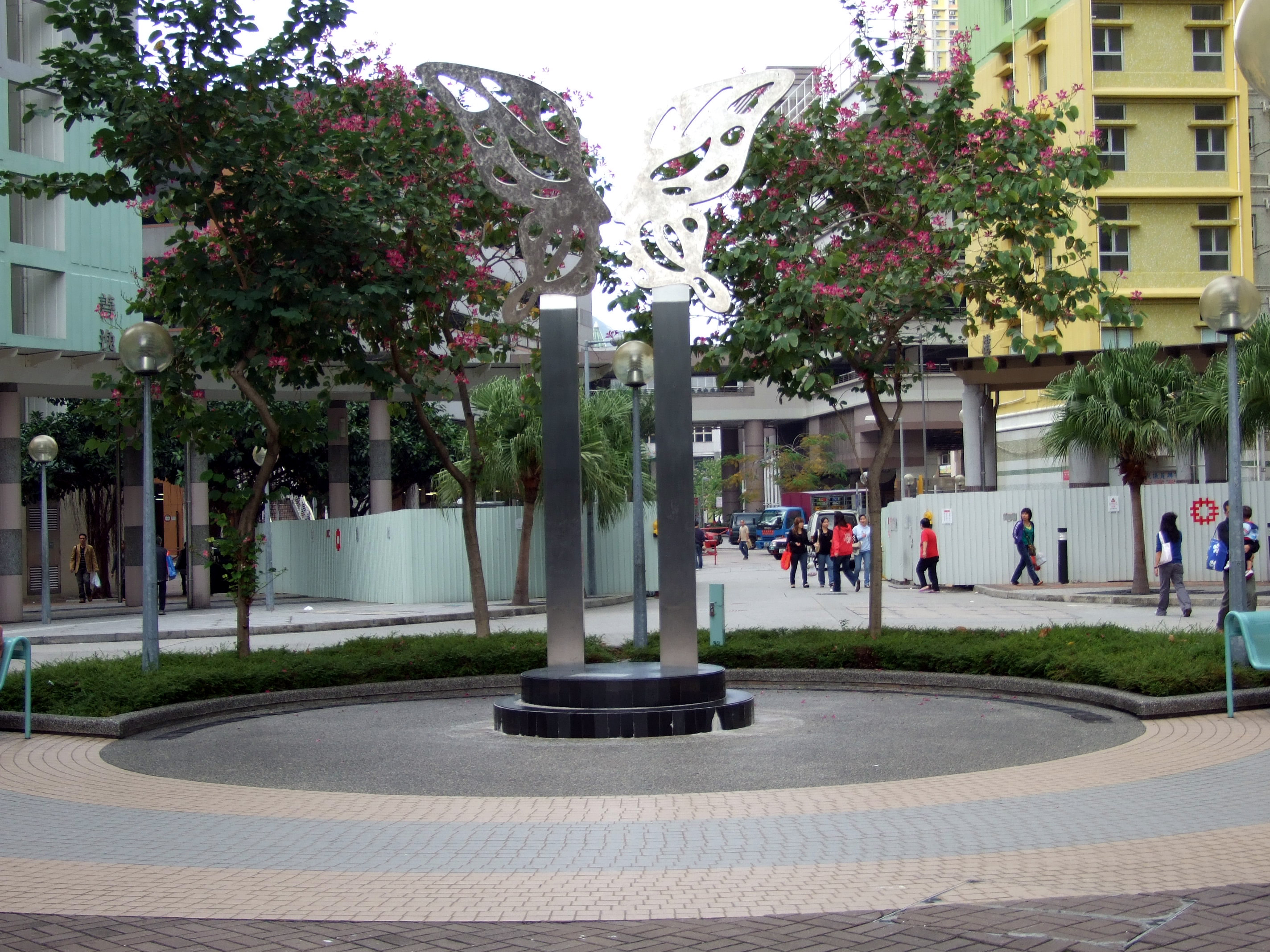 中文（香港）: 「人在自然」 "Man In Nature" created by Kan Tai-keung for Hong Kong Housing Authority displays permanent in Yat Tung Artwalk.